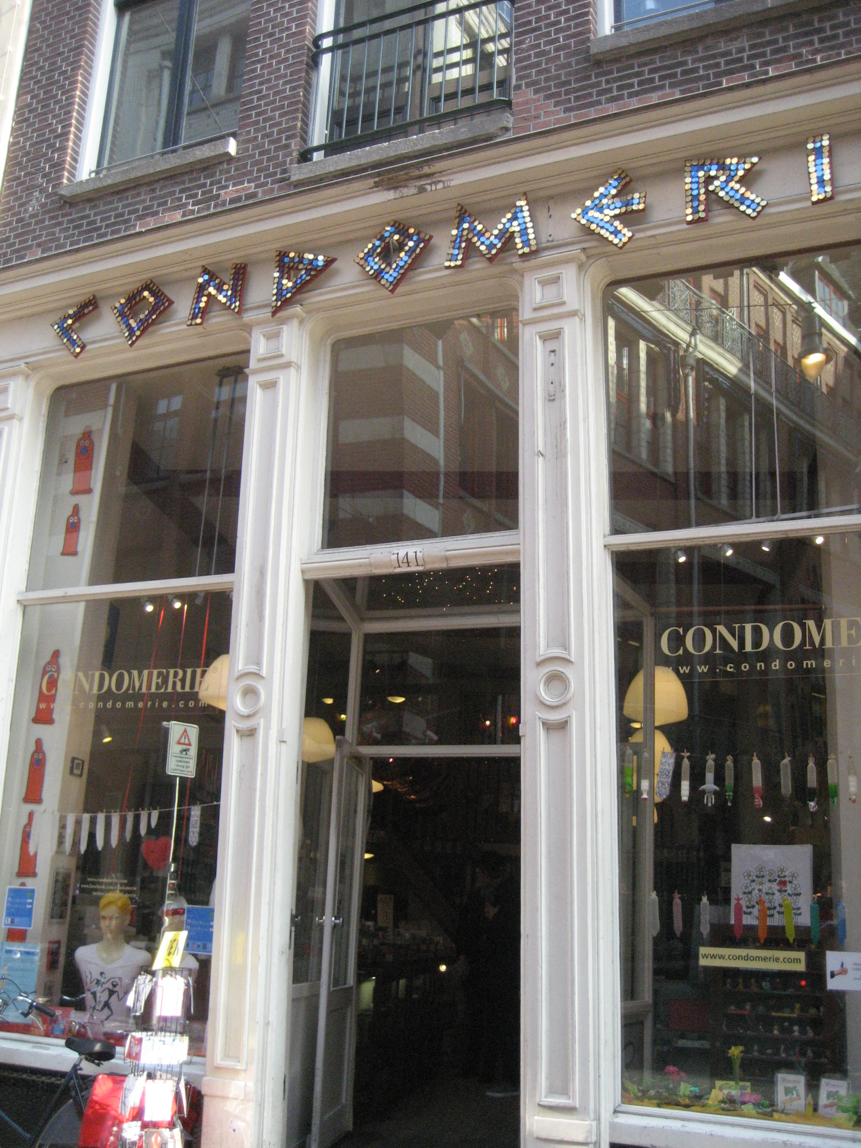 Condom shop, Warmoesstraat 141, 1012 JB Amsterdam (The Netherlands)